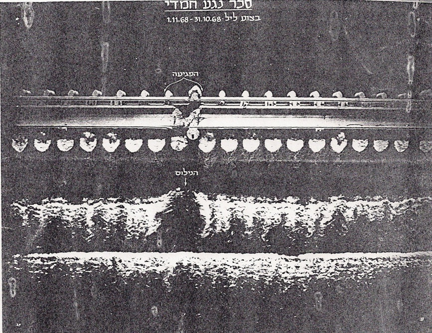 A damadged dam or bridge in Egypt